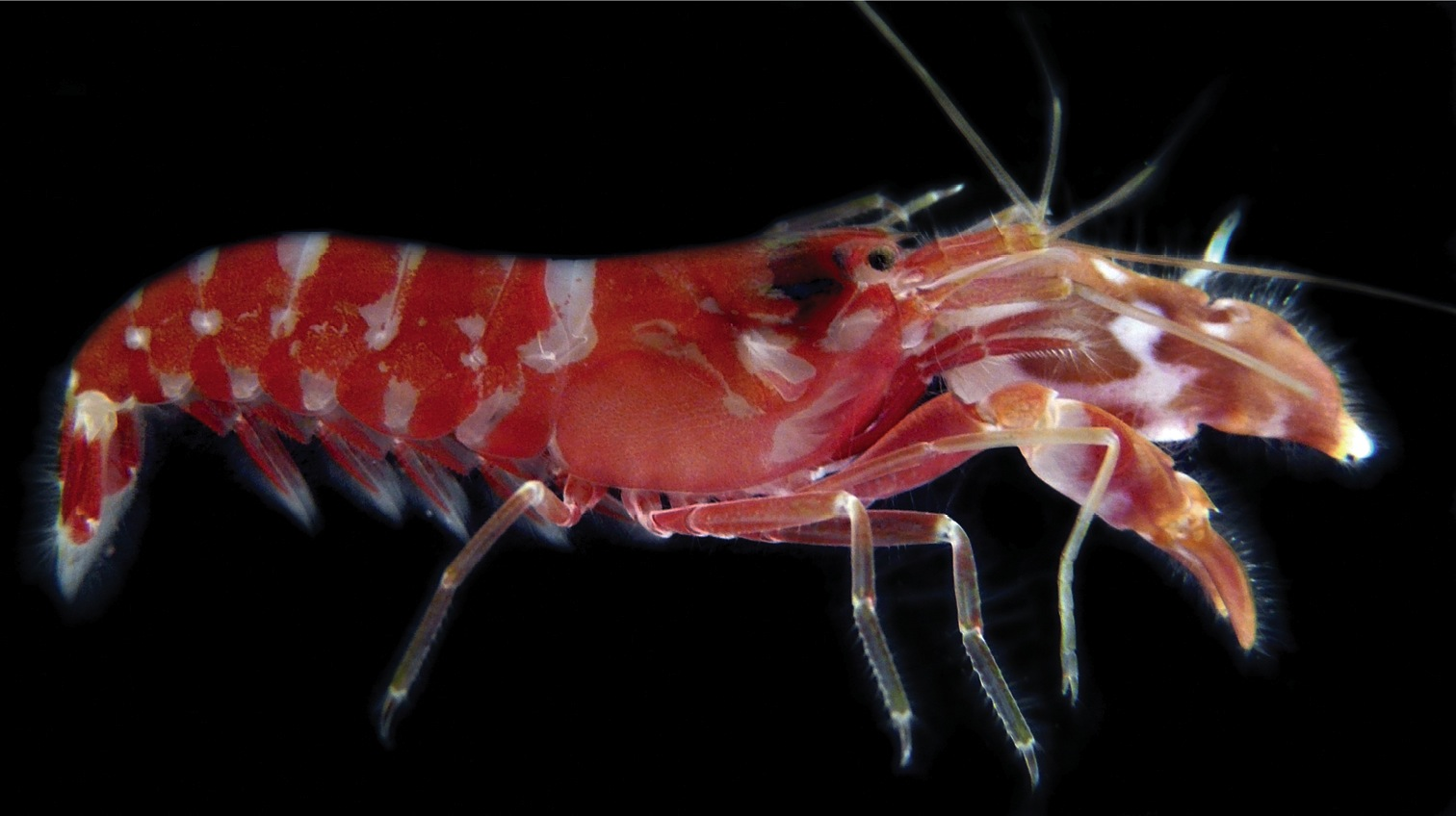 Alpheus cedrici holotype, male from Ascension Island (OUMNH.ZC. 2008-11-0017), lateral view (photograph by S. De Grave).